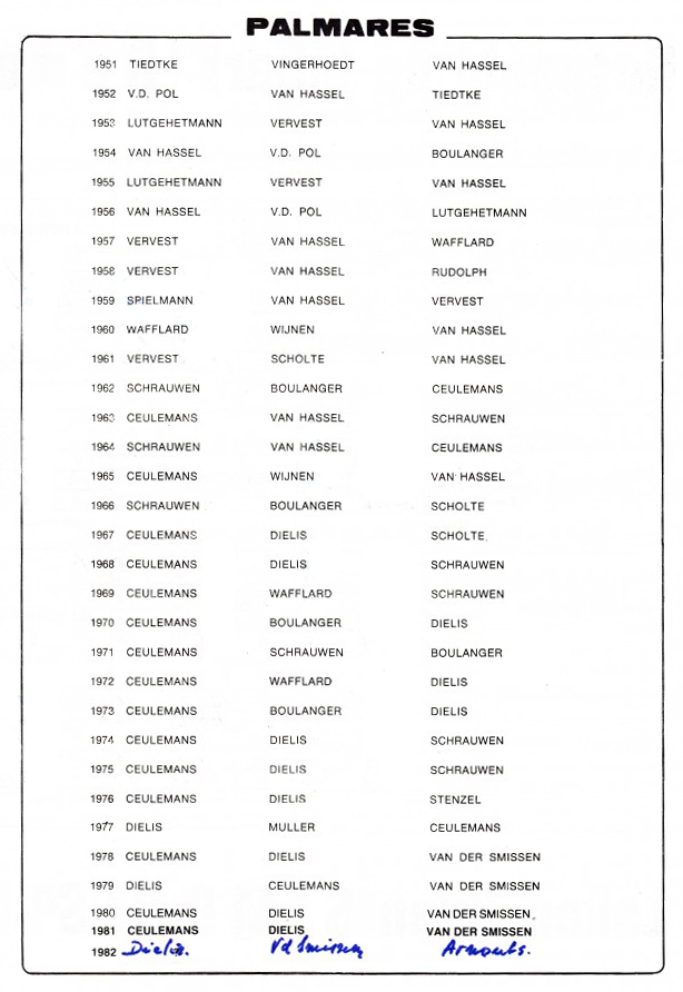 From 1951–1982 the belgian billiards club „de Boerinnekes“ in Antwerp organized an invitational Tournament in Pentathlon (5 different Carom Billiards disciplines) with international participiants from Europe. The list shows the medalists.